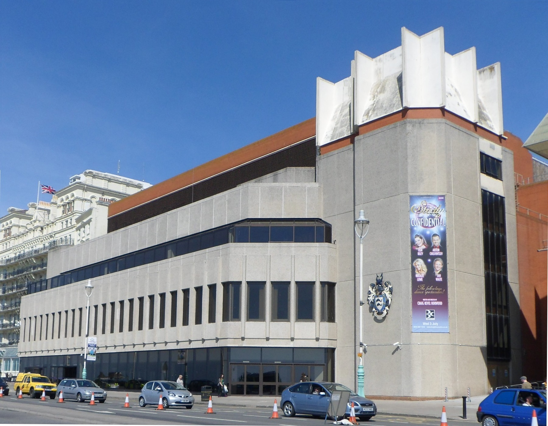 The Brighton Centre, Kings Road, Brighton, City of Brighton and Hove, England. Built in 1977 and used as an venue for major shows, conferences and similar. The stuccoed building to the left (west) is the Grand Hotel.